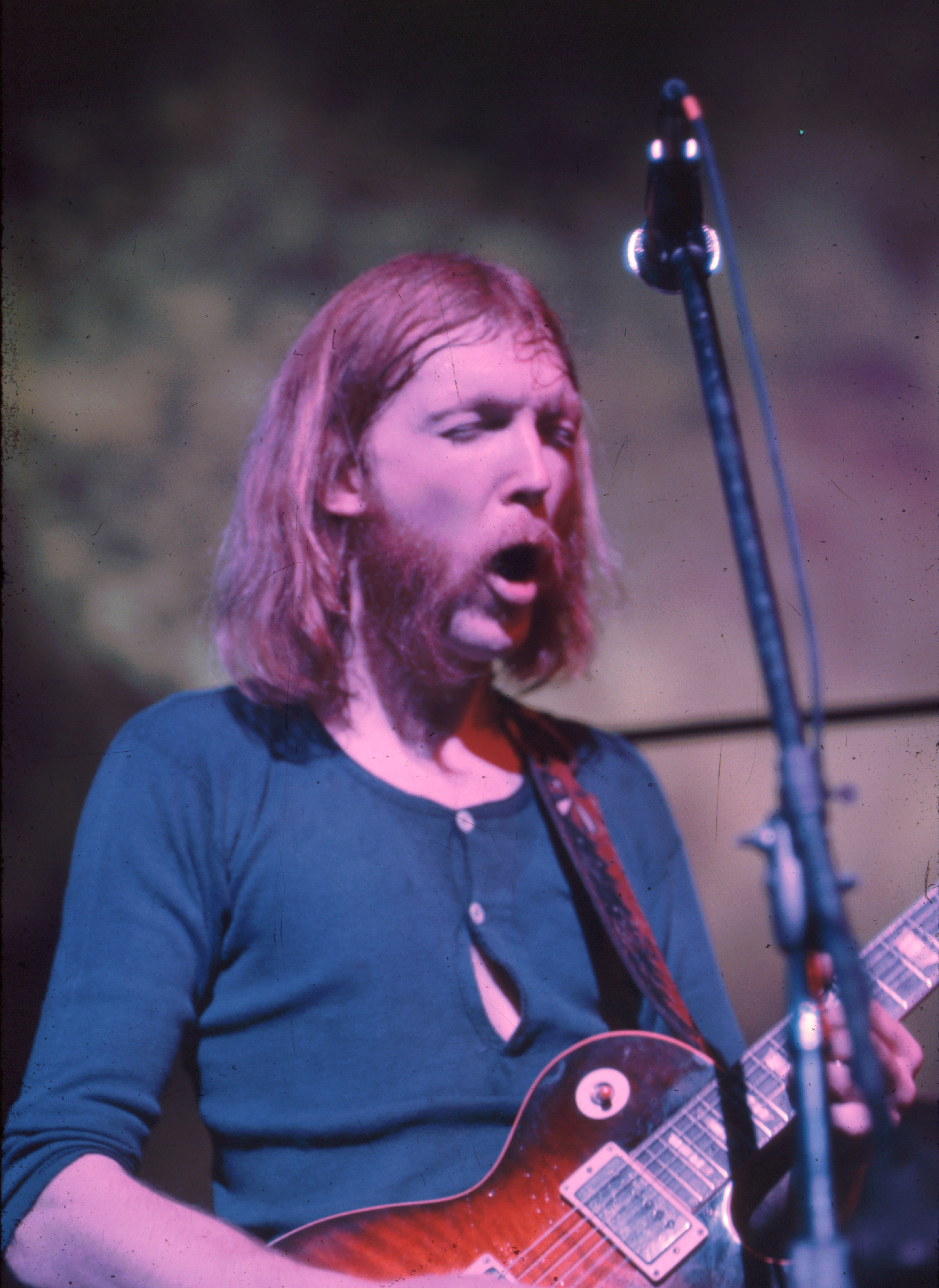 This picture of Duane Allman was taken from a Saturday night show at the Fillmore East's final weekend. Unfortunately, this particular scan is a poor one, but will eventually be replaced by a fresh print.